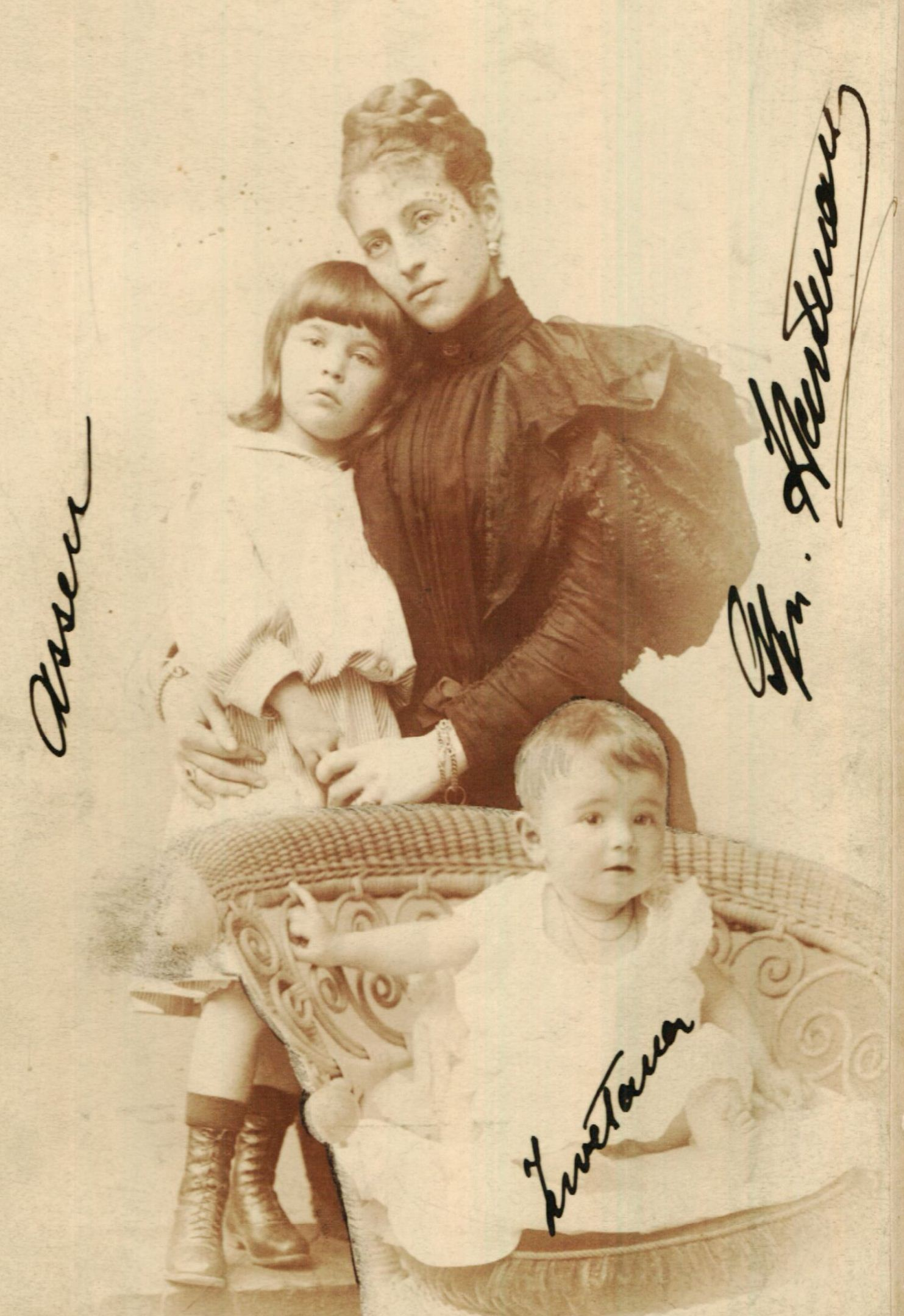 Johanna Loisinger with her children: Assen Ludwig Alexander, Graf von Hartenau, and Zwetana Maria Theresa von Hartenau. Graz, Austria-Hungary, around 1894